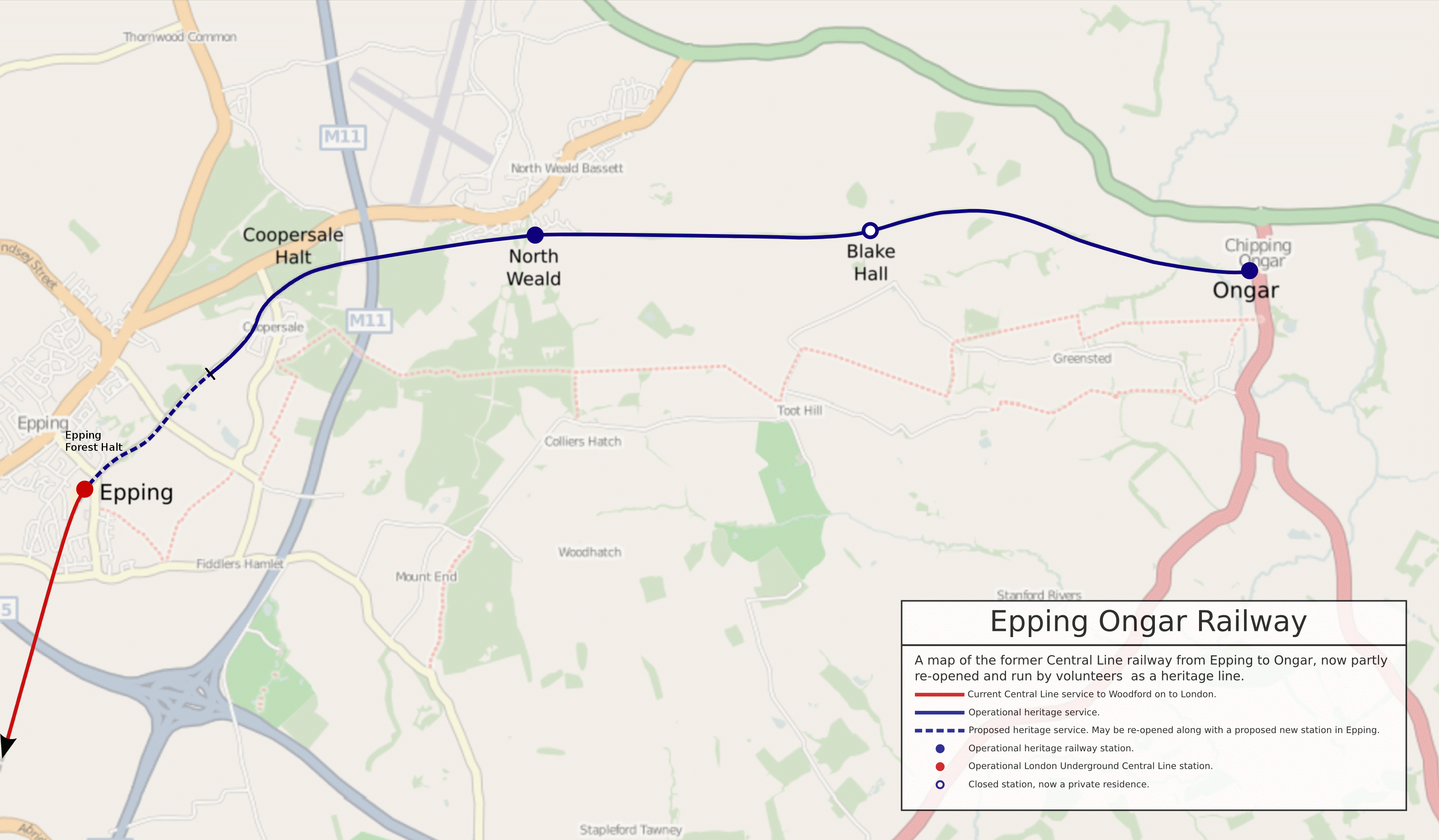 Map of the Epping Ongar Railway. This PNG graphic was created with Inkscape.